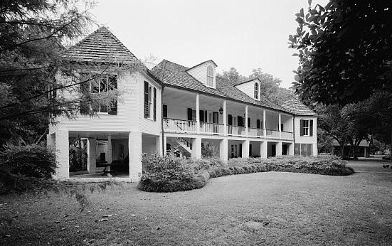 Melrose Plantation, Big House, State Highway 119, Melrose (Natchitoches Parish, Louisiana) (cropped)